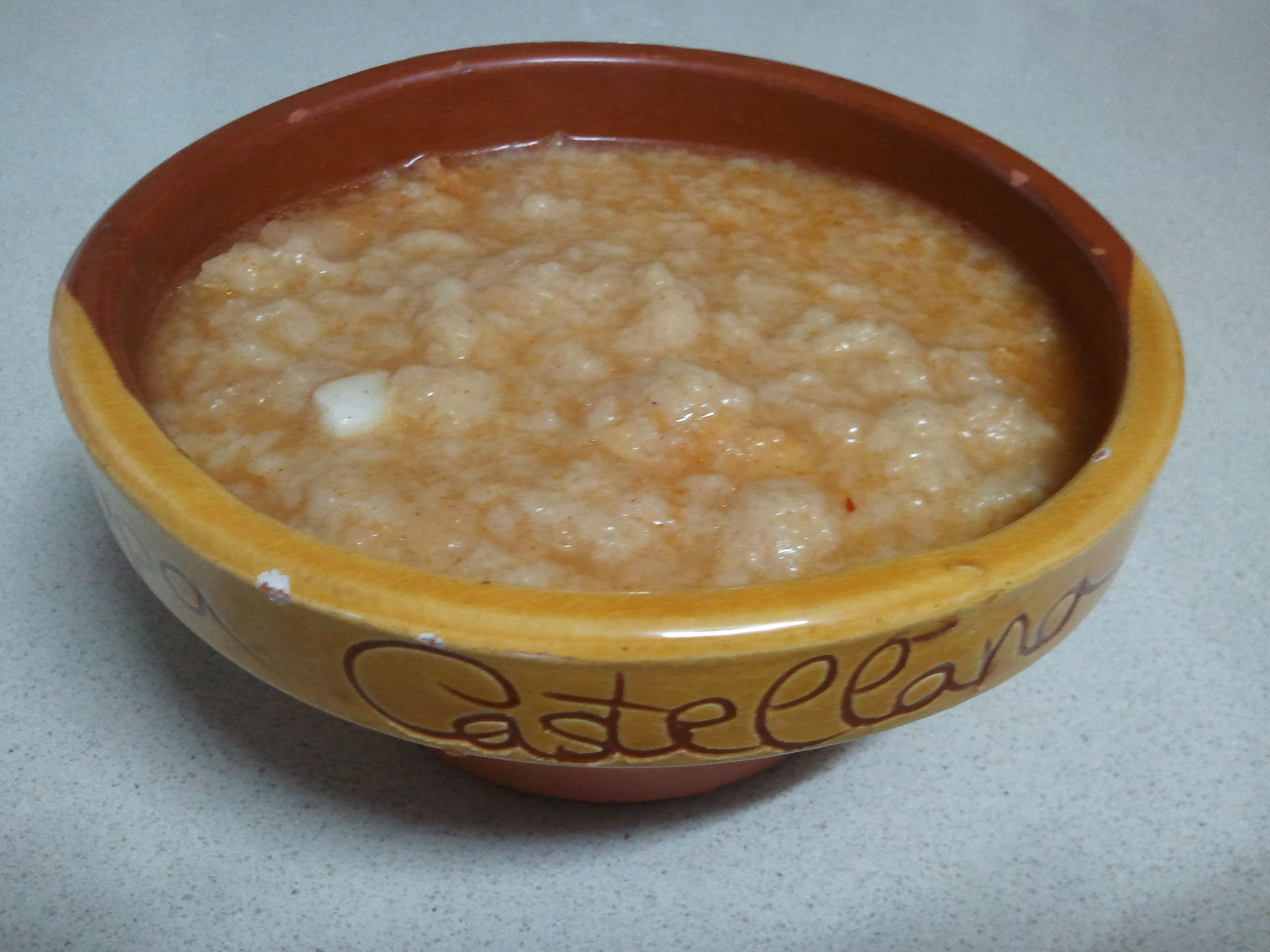 Garlic soup or Castilian soup, in this case without egg, Ávila, Spain